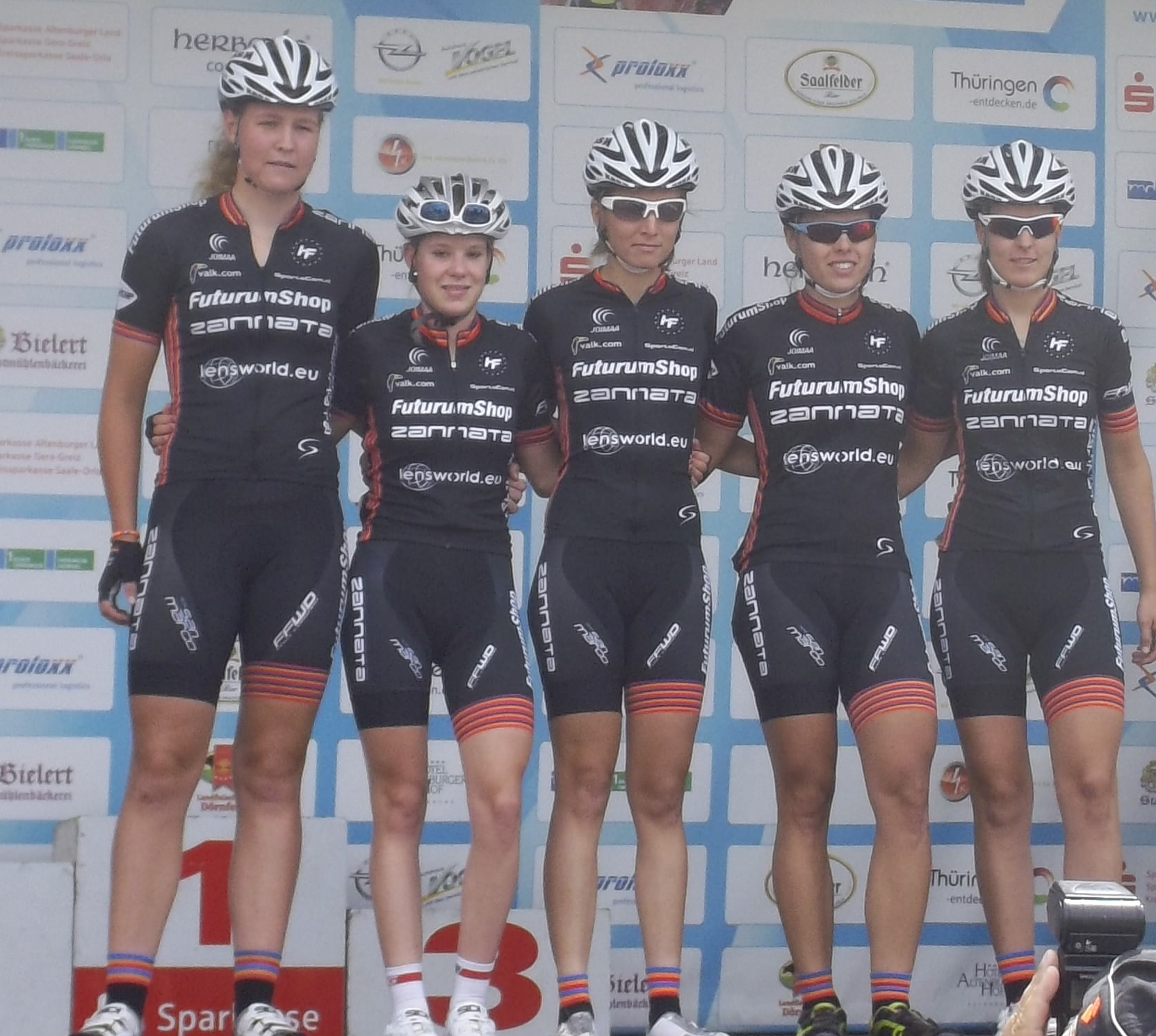 Futurumshop zannata team at Thuringen Rundfahrt 2014, presentation of stage 1.